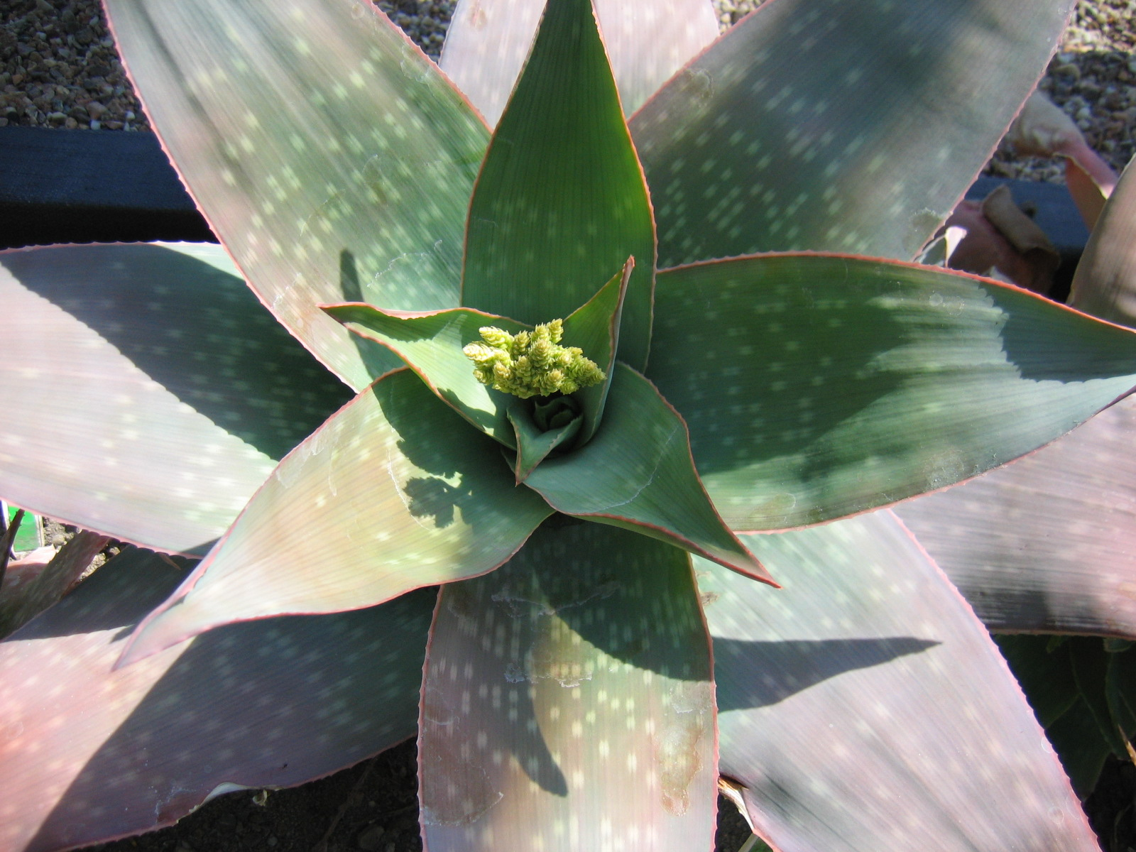 Aloe reynoldsii, plant cultivated in Wrocław University Botanical Garden, Wrocław, Poland.